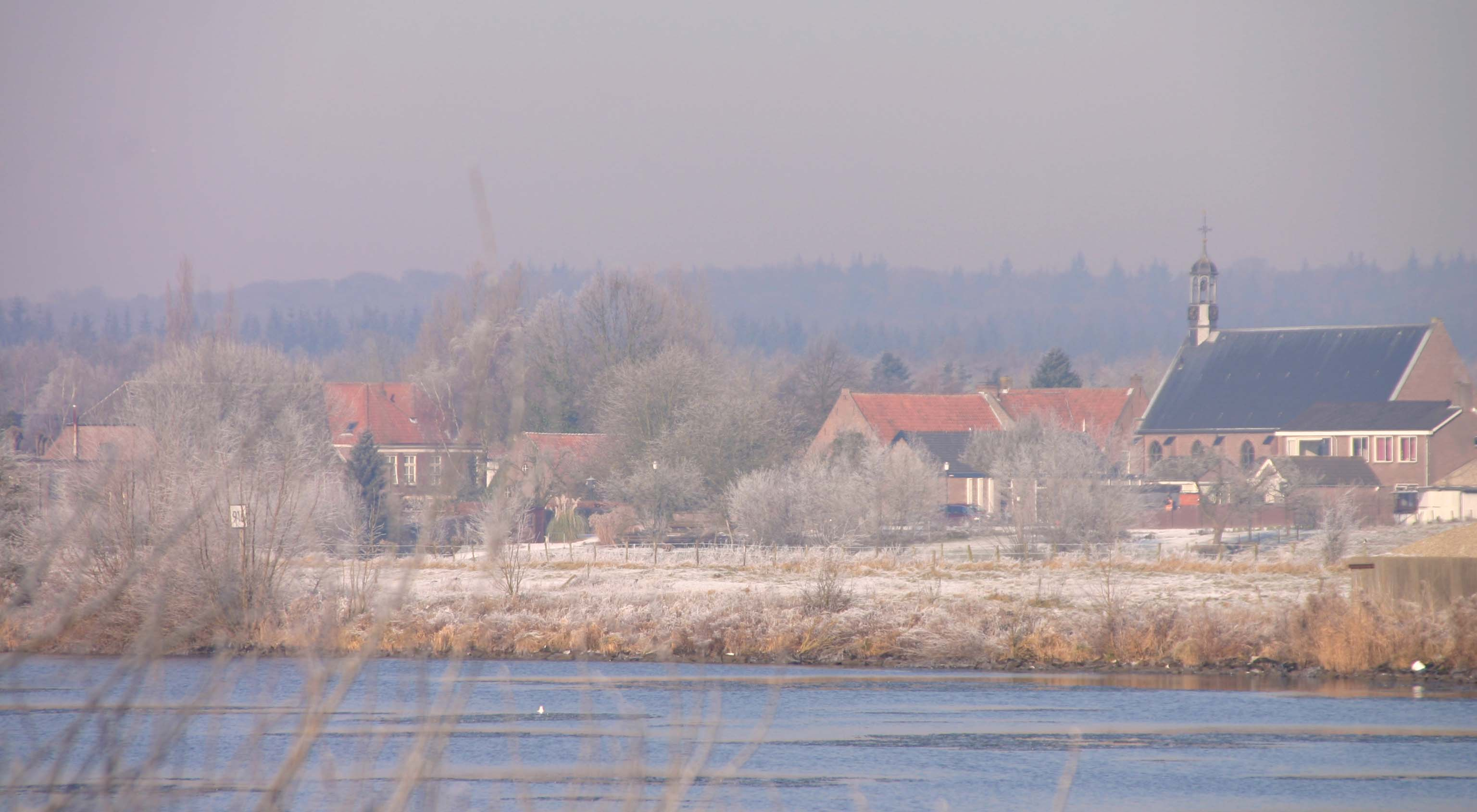 View on Elst (municipality Rhenen, province Utrecht, The Netherlands) from over the Lower Rhine.